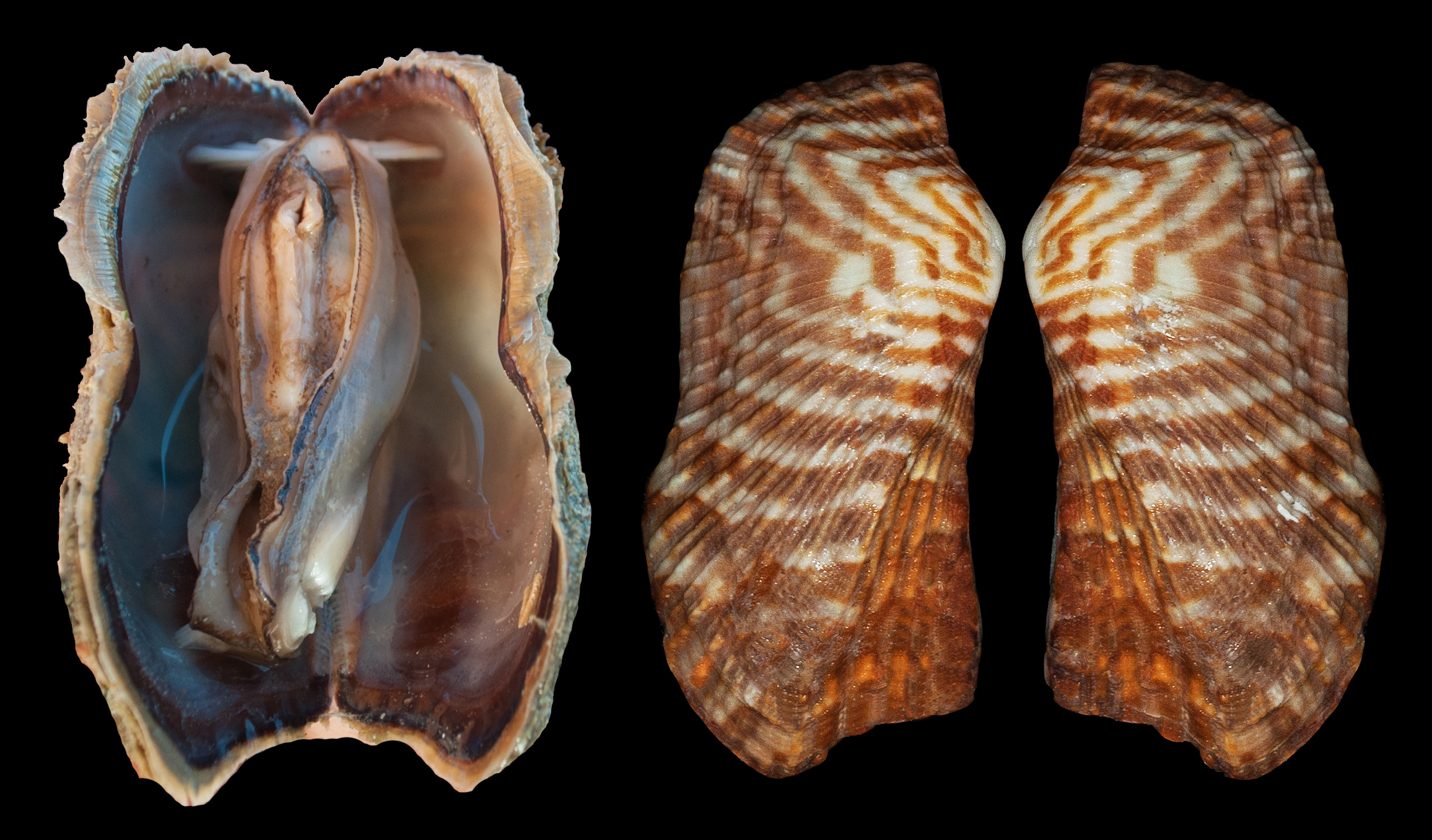 Arca zebra (Interior and Exterior) from El Guamache Bay, Margarita island. Locally called Pata e cabra